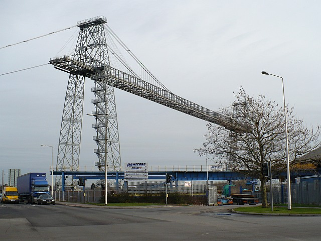 Newport Transporter Bridge. In the foreground is the entrance to Rowecord Engineering Ltd who manufactured the nearby Newport City Footbridge. 546247